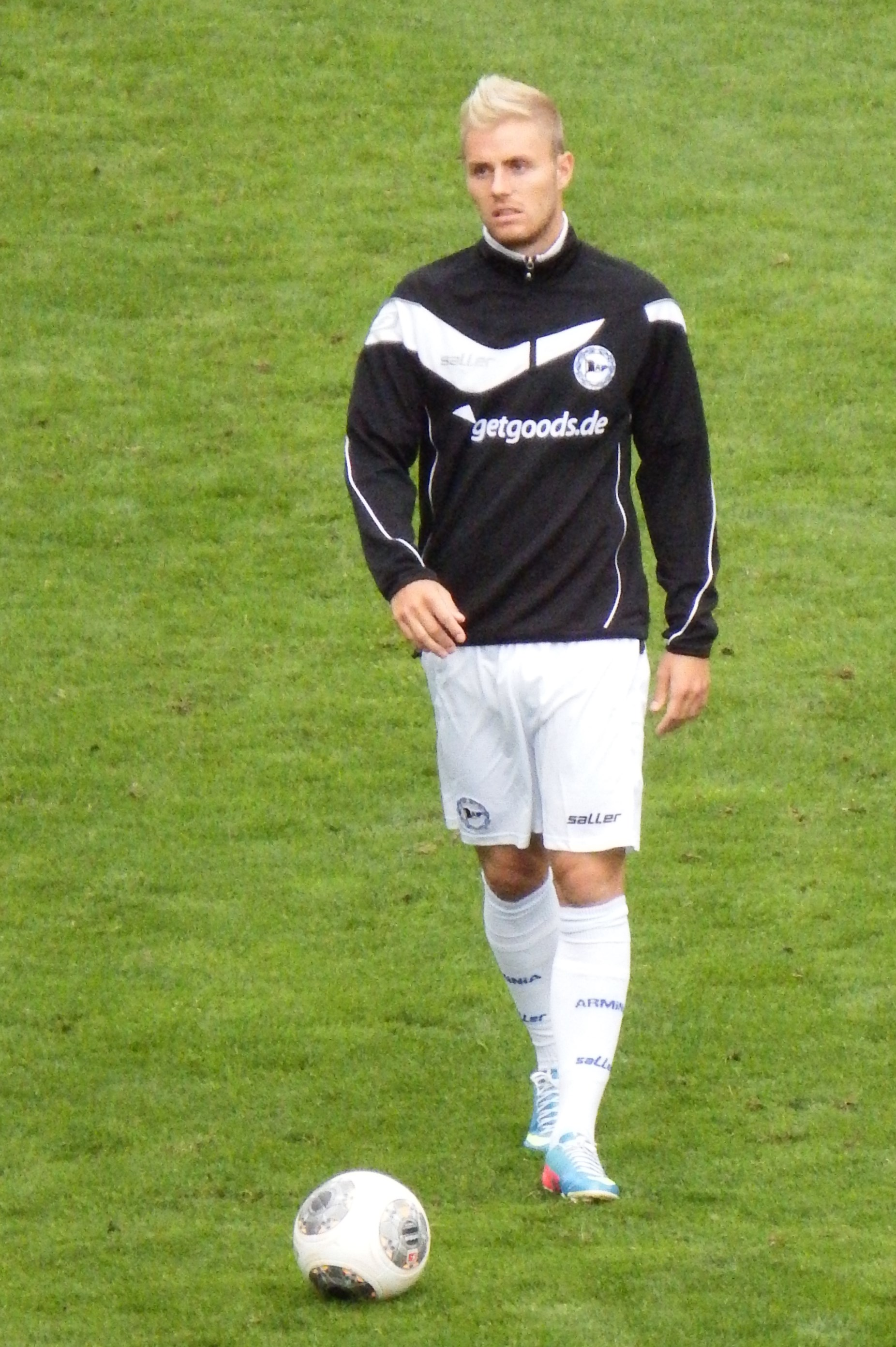 Felix Burmeister as Player of Arminia Bielefeld